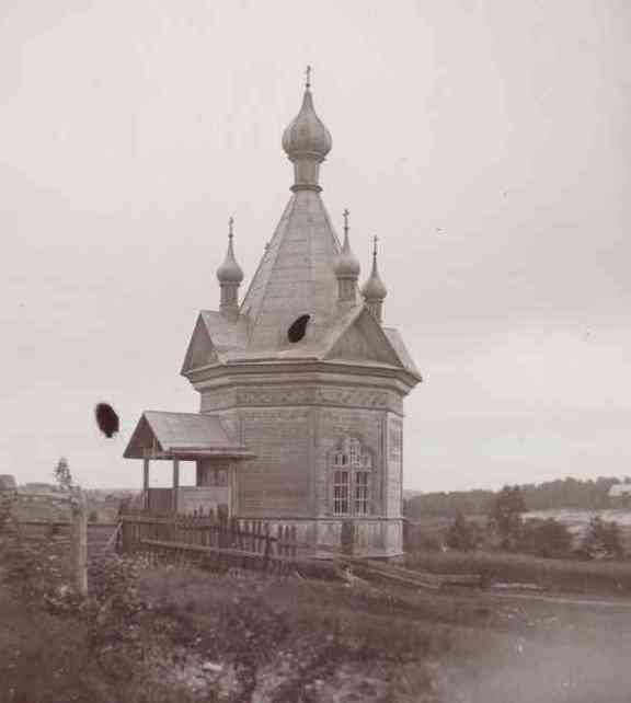 Chapel of Sofia. A chapel in Tulema (now Russia) built c. 1910 after the visit of Governor-General Franz Albert Seyn